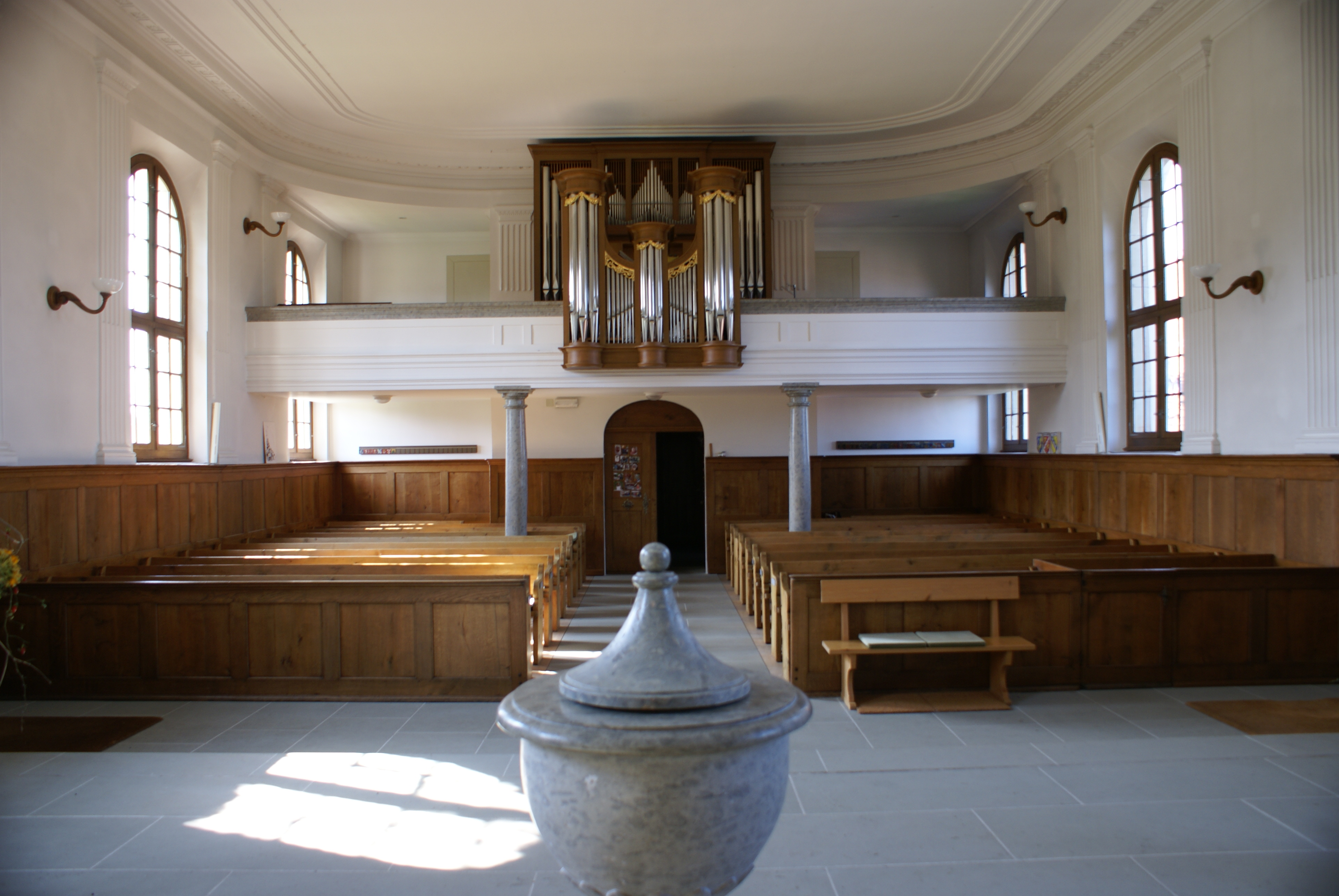 Reformed Church, Limpach, Switzerland.